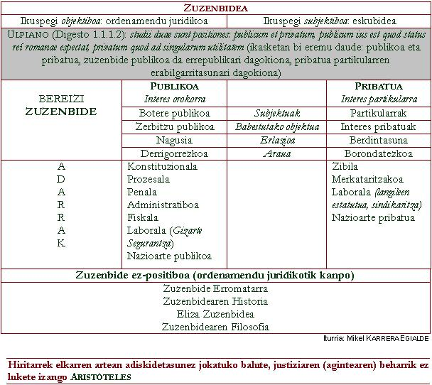 Zuzenbidea: bere edukiaren eskema